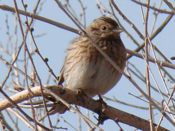 Pine Bunting (Emberiza leucocephalos), female. Baikonur-town, Kazakhstan.